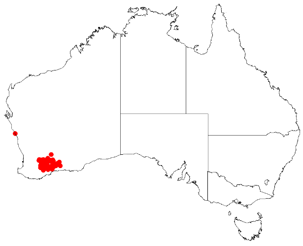 Hakea newbeyana Occurrence data downloaded from AVH on 22 November 2018 using